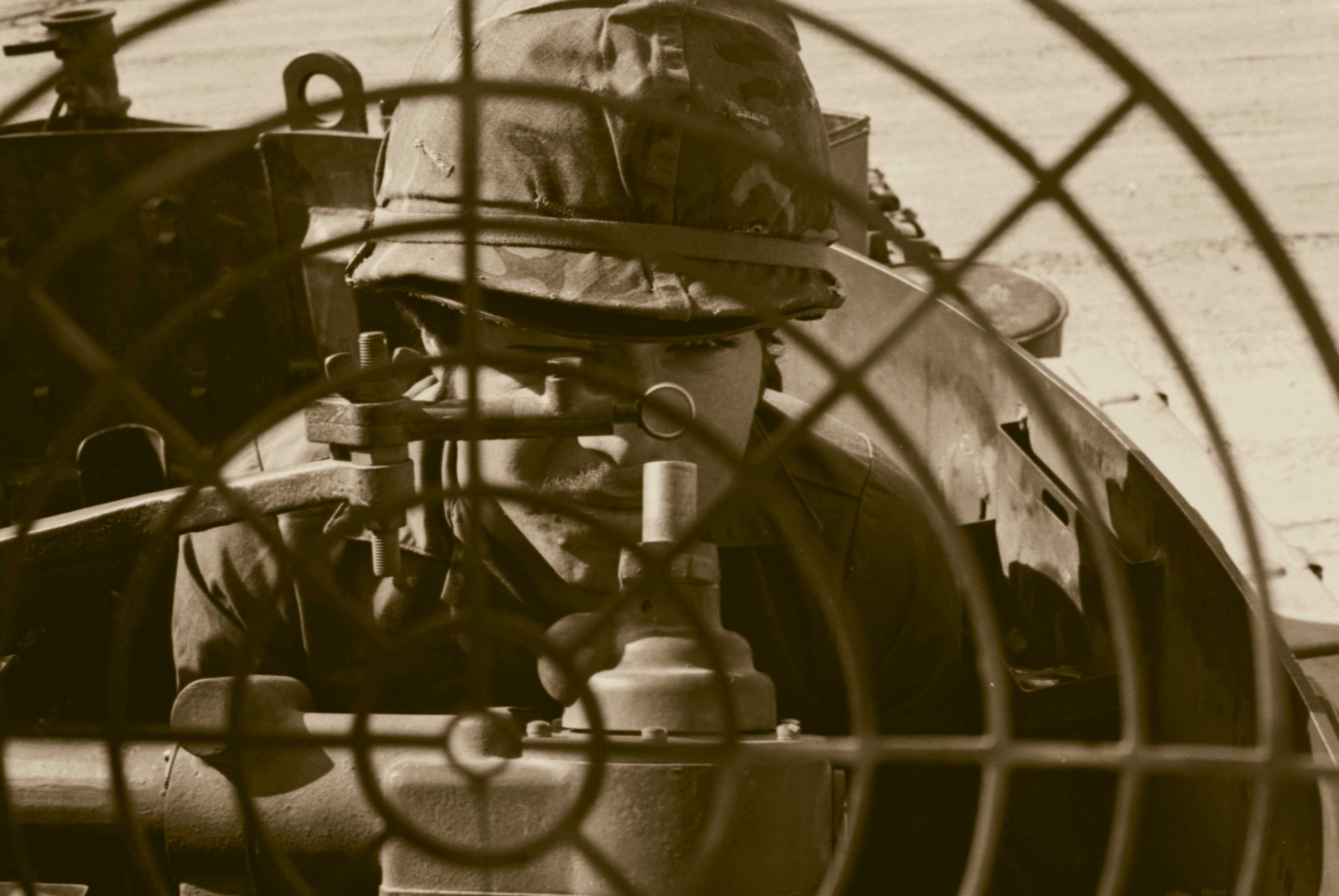 A soldier takes aim through a M42 Duster gun sight at Fort Bliss, Texas (July 1982). Photo by Peter Rimar.